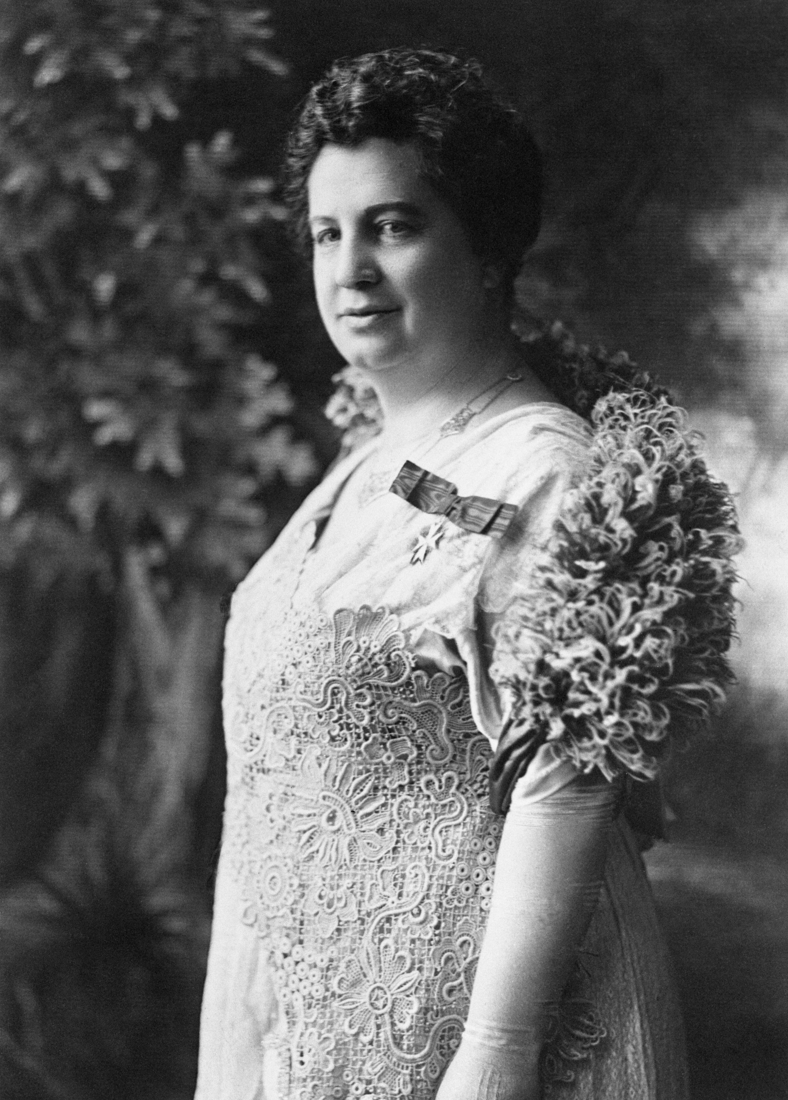 Emily Murphy, c. 1910s